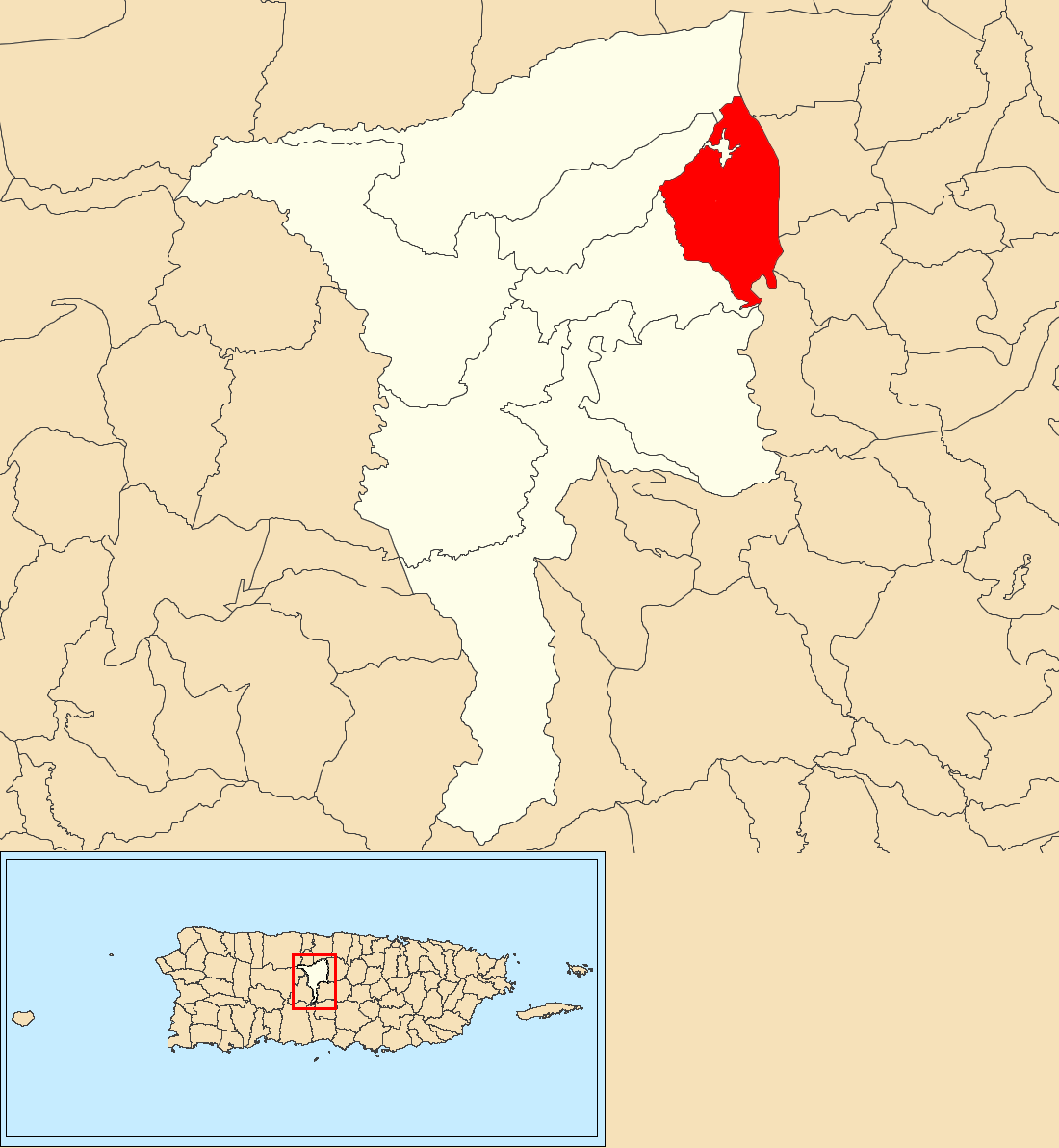 Jaguas, Ciales, Puerto Rico locator map